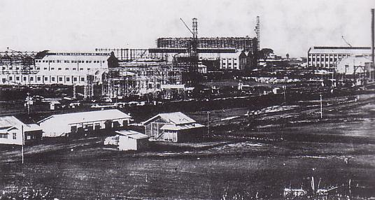 Chemical factory in Kankou(Hamhung)